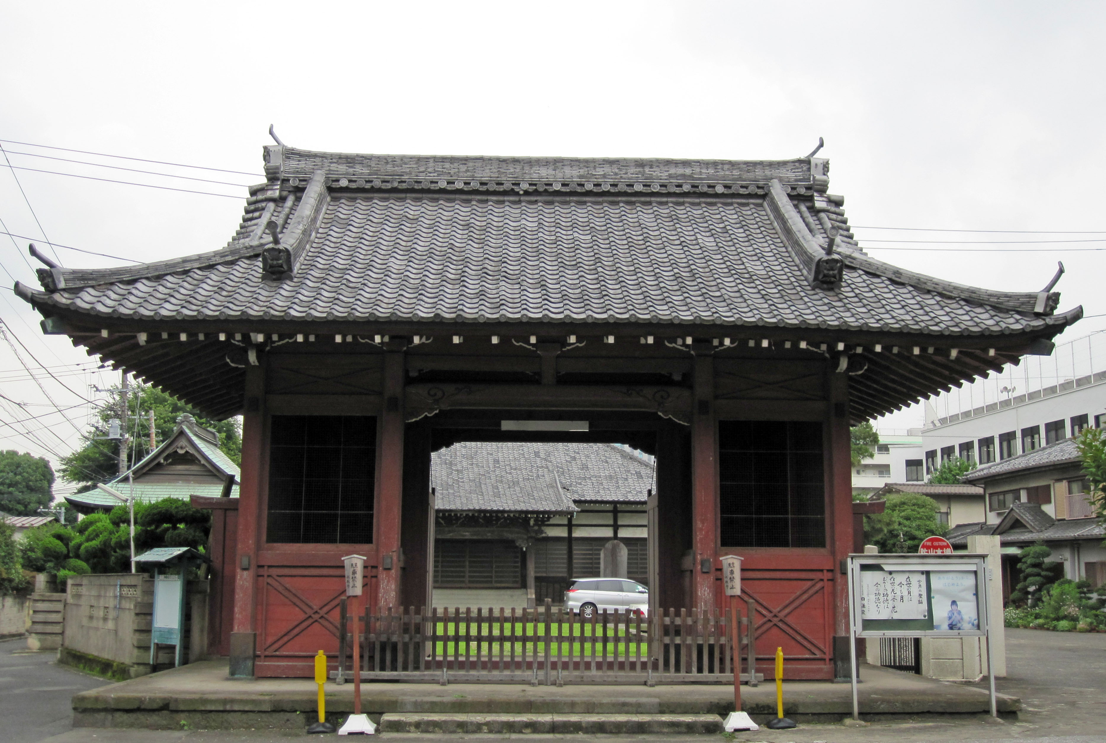 Jōkyō-ji Niō-mon gate 承教寺 仁王門